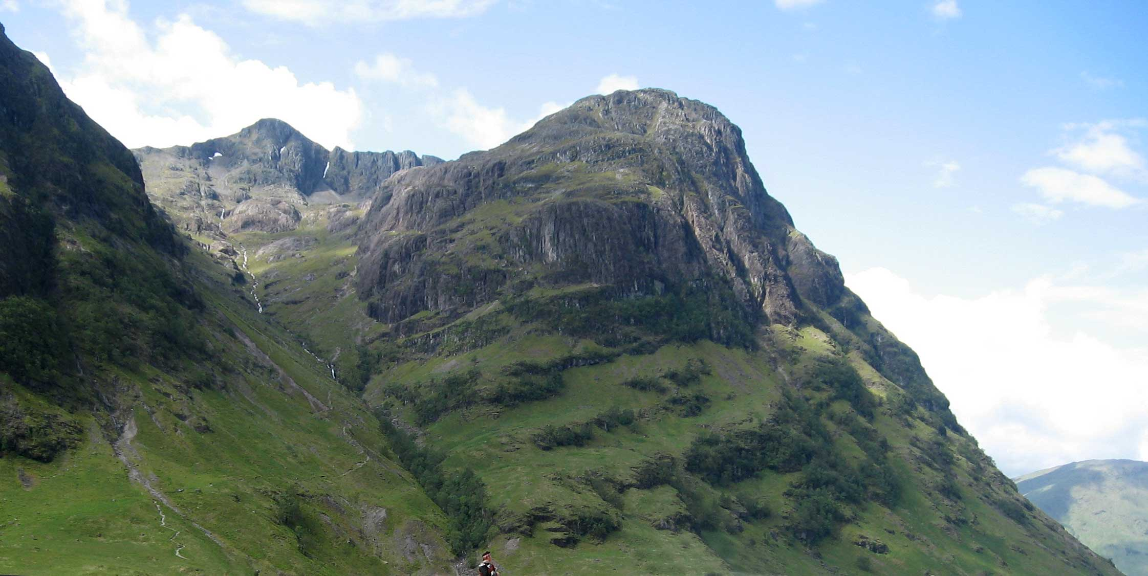 Bidean nam Bian massif seen from viewpoint car park in Glen Coe, looking up Coire nan Lochan to Stob Coire nan Lochan.